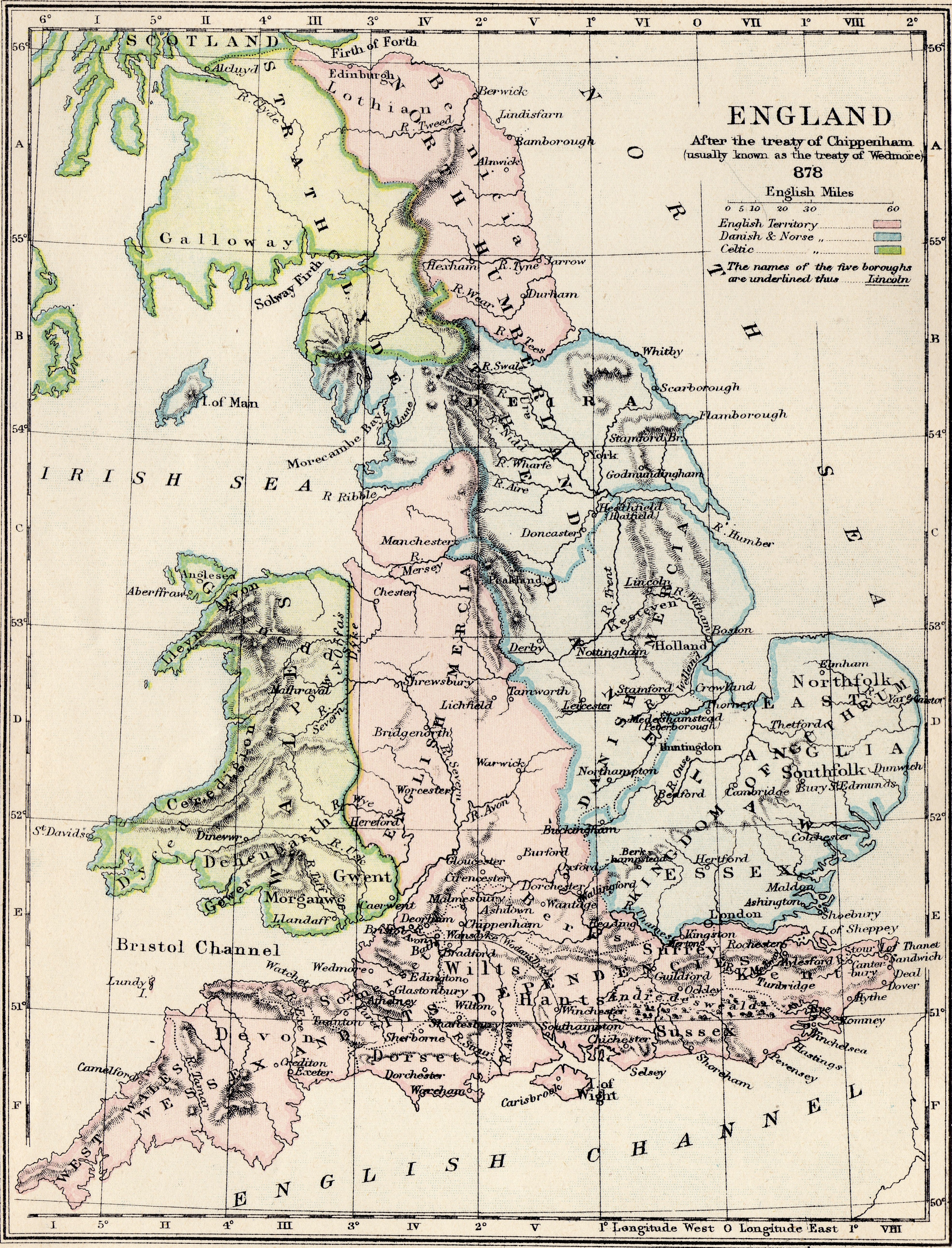 England in 878: boundaries were fluid, the map is probably inaccurate overall, and so should only be regarded as giving a general indication.